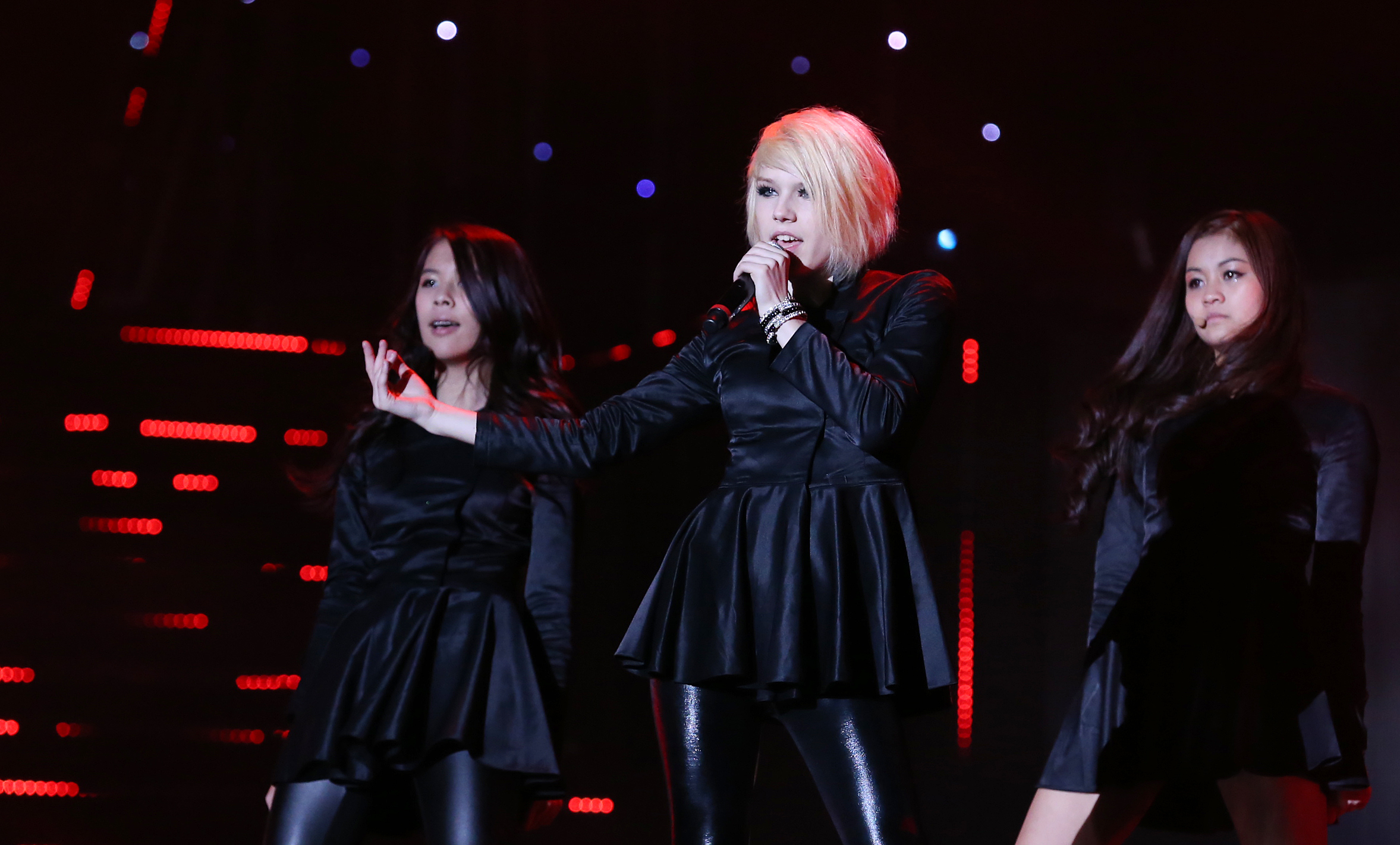 2012 K-POP World Festival Performance by O.M.G (Czech) Changwon, Korea 2012.10.28. Ministry of Culture, Sports and Tourism Korean Culture and Information Service Jeon Han 2012 K-POP 월드 페스티벌 체코 참가팀 O.M.G 경상남도 창원시 문화체육관광부 해외문화홍보원 코리아넷 전한